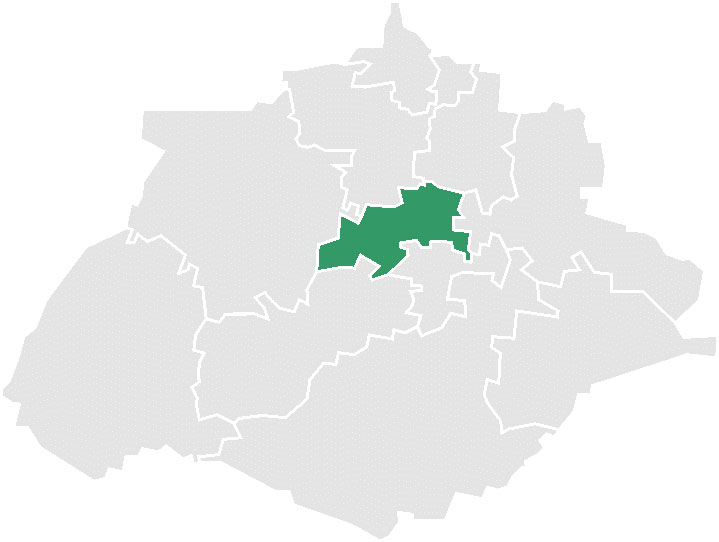 Map of the Municipalty of Pabellón de Arteaga in the State of Aguascalientes, México.